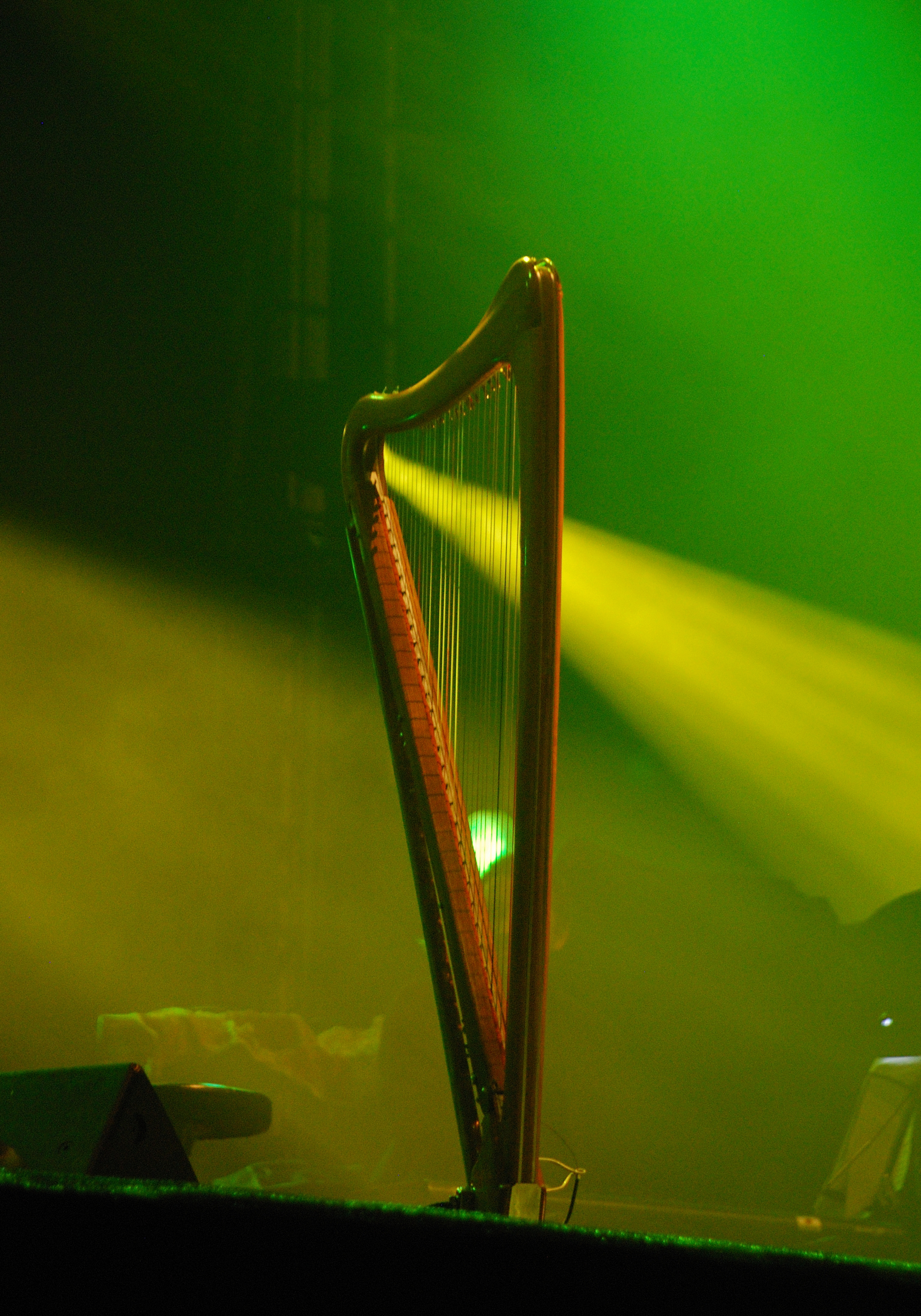 Alan Stivell at the Festival Folk Cantabria Infinita (San Vicente de la Barquera, Spain).